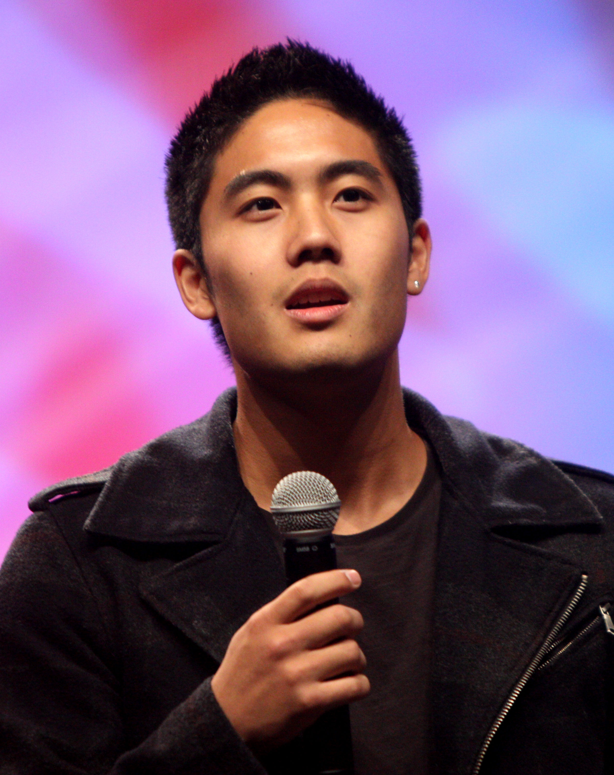 Ryan Higa at the 2012 VidCon in Anaheim, California